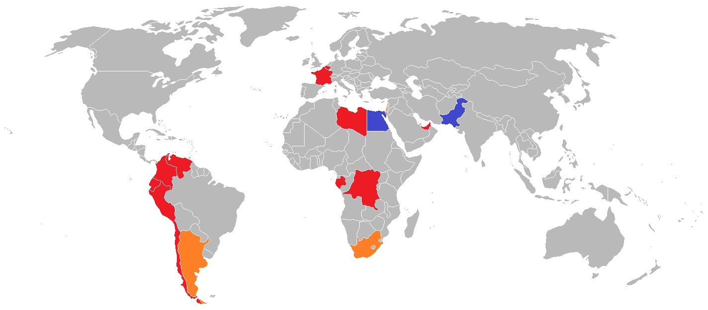 Users of Mirage 5, Mirage 50, and IAI Nesher multirole fighter aircraft.